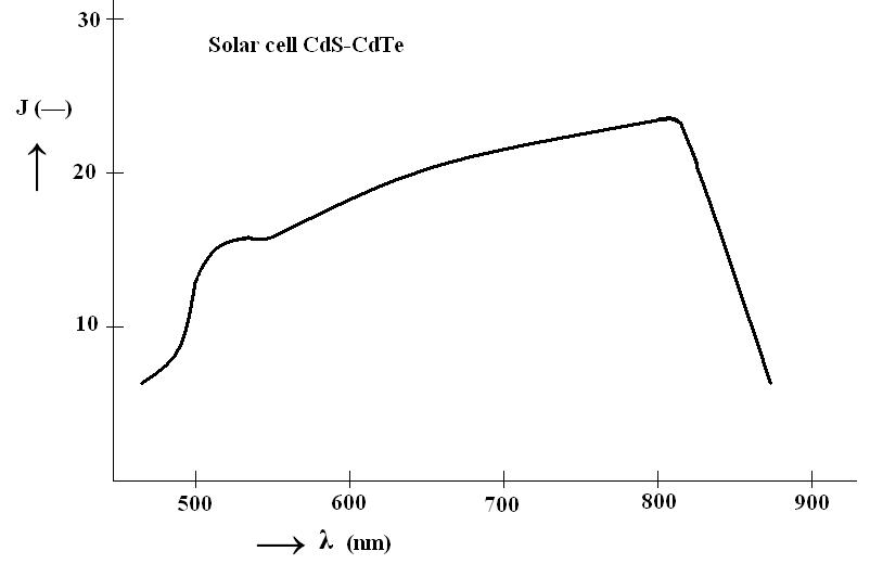 Solar cell CdS-CdTe.